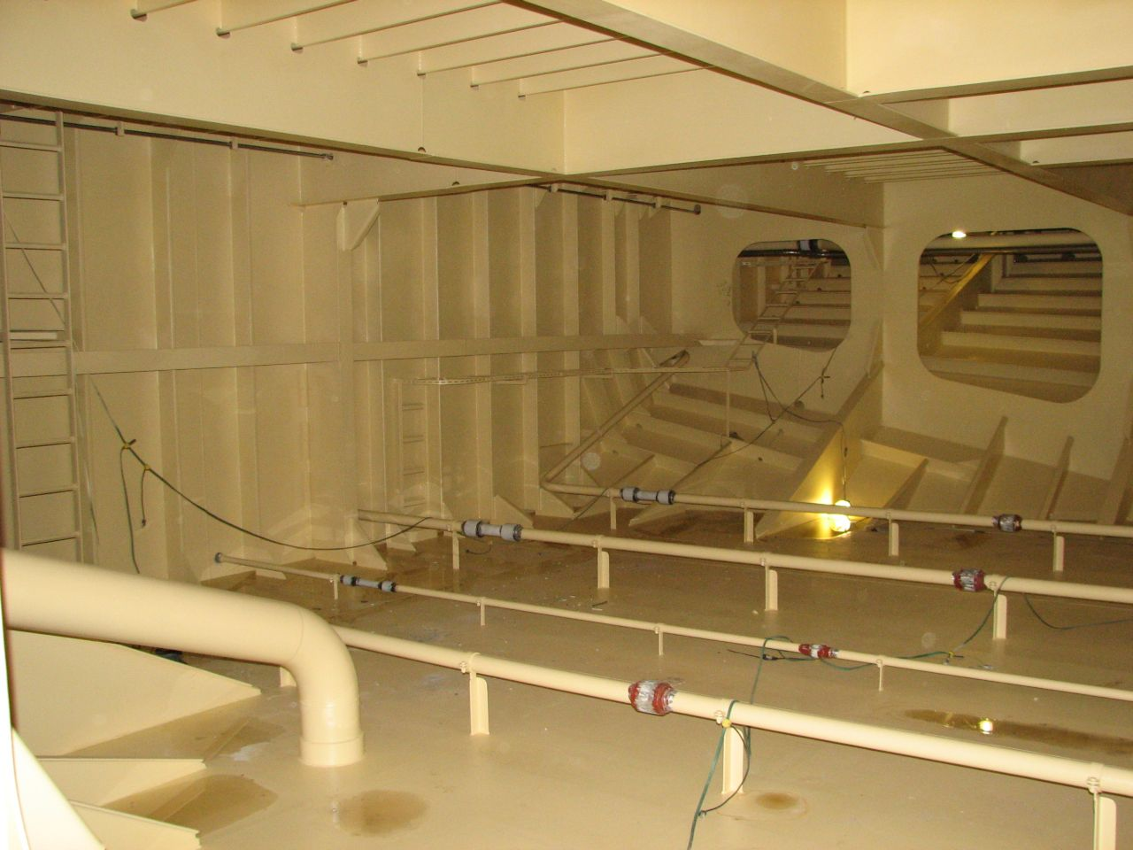 Inside a fuel tank on a ferry.